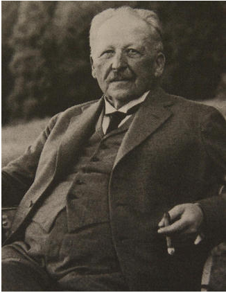 Wilhelm Haarmann (1847-1931), German chemist who firstly produced vanillin